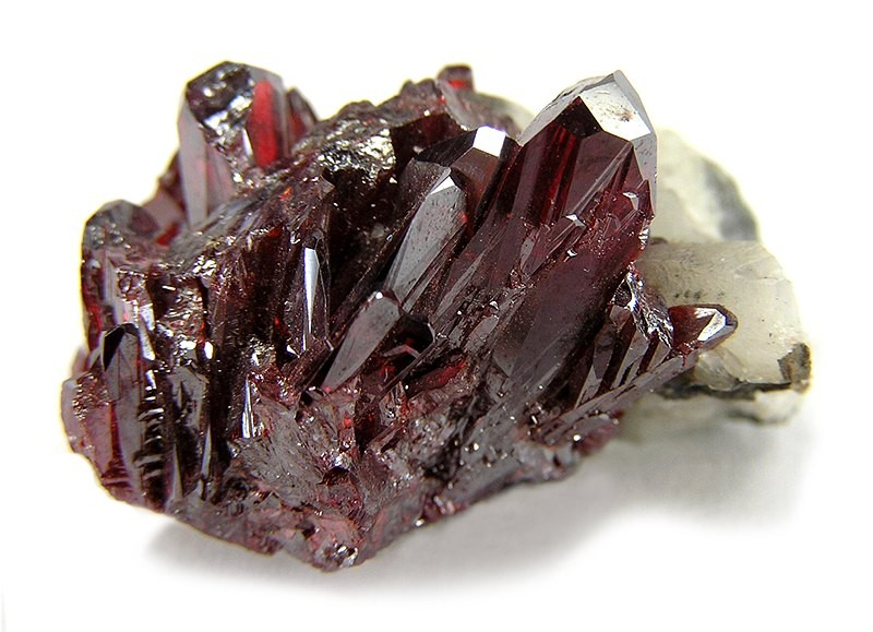 Proustite, Calcite Locality: Chañarcillo, Copiapó Province, Atacama Region, Chile (Locality at ) This exceptionally gemmy piece , with association of calcite, is from the famus finds of the late 1800s and such are very rare! it is a colorful and showy speciment hat is affordable and doesnt break the bank, given that it has some admitted damage between the major crystals and has been priced down accordingly. But, its show value is high and it remains a very rare specimen 3.0 x 2.0 x 1.9 cm